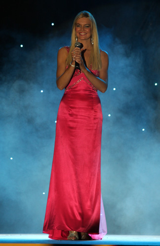 Miss Northern Ireland Judith Wilson singing in the talent show of Miss World 08